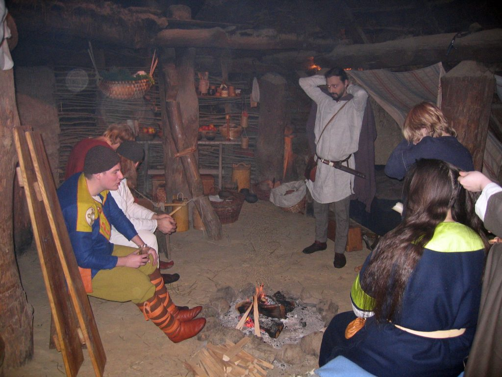 Living History event of the 7th century at the archaeological open air museum Oerlinghausen, Germany